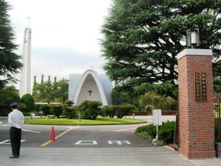 Rikkyo Niiza Junior and Senior High School main entrance